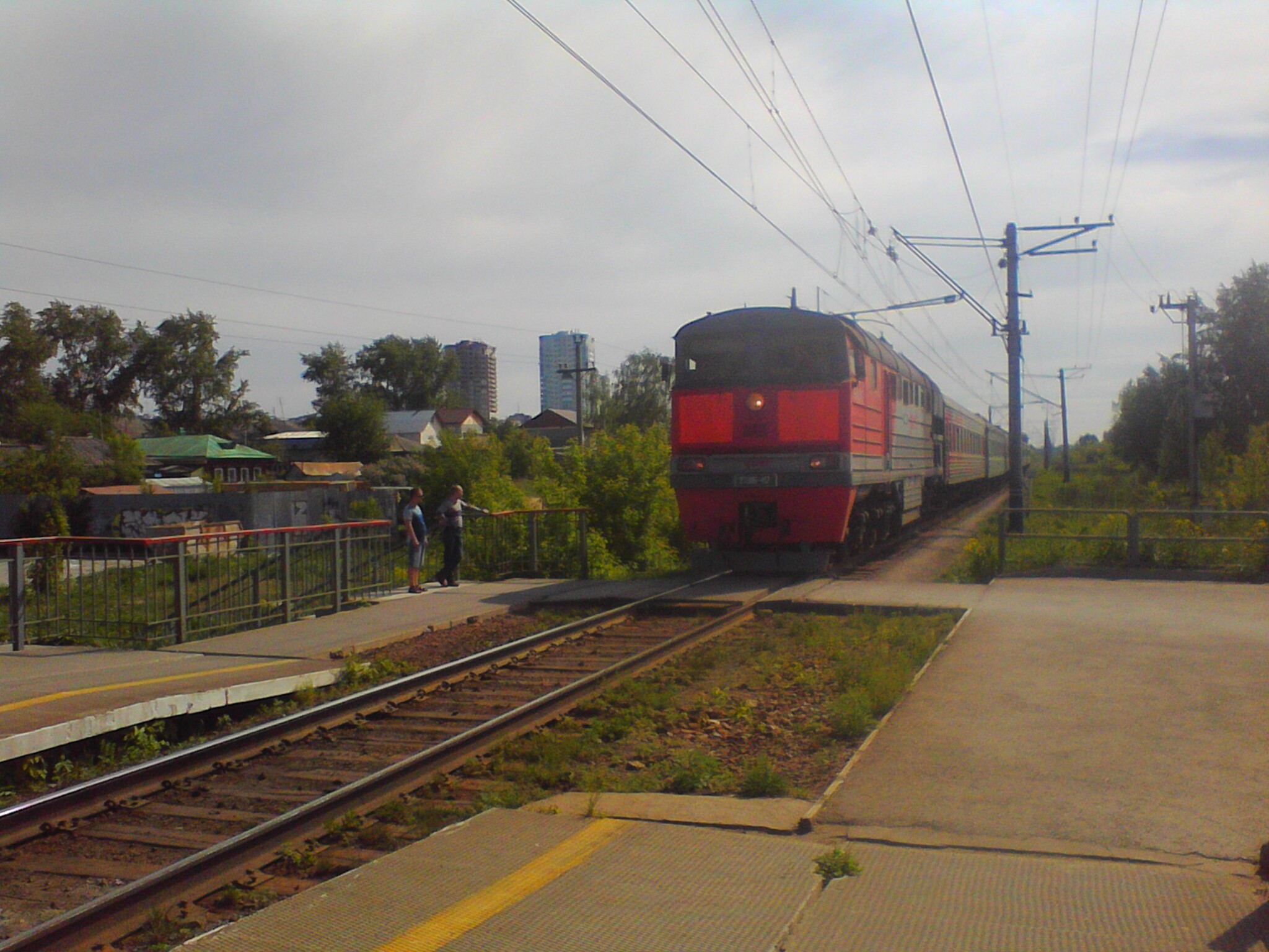 Botanicheskaya platform in Ekaterinburg